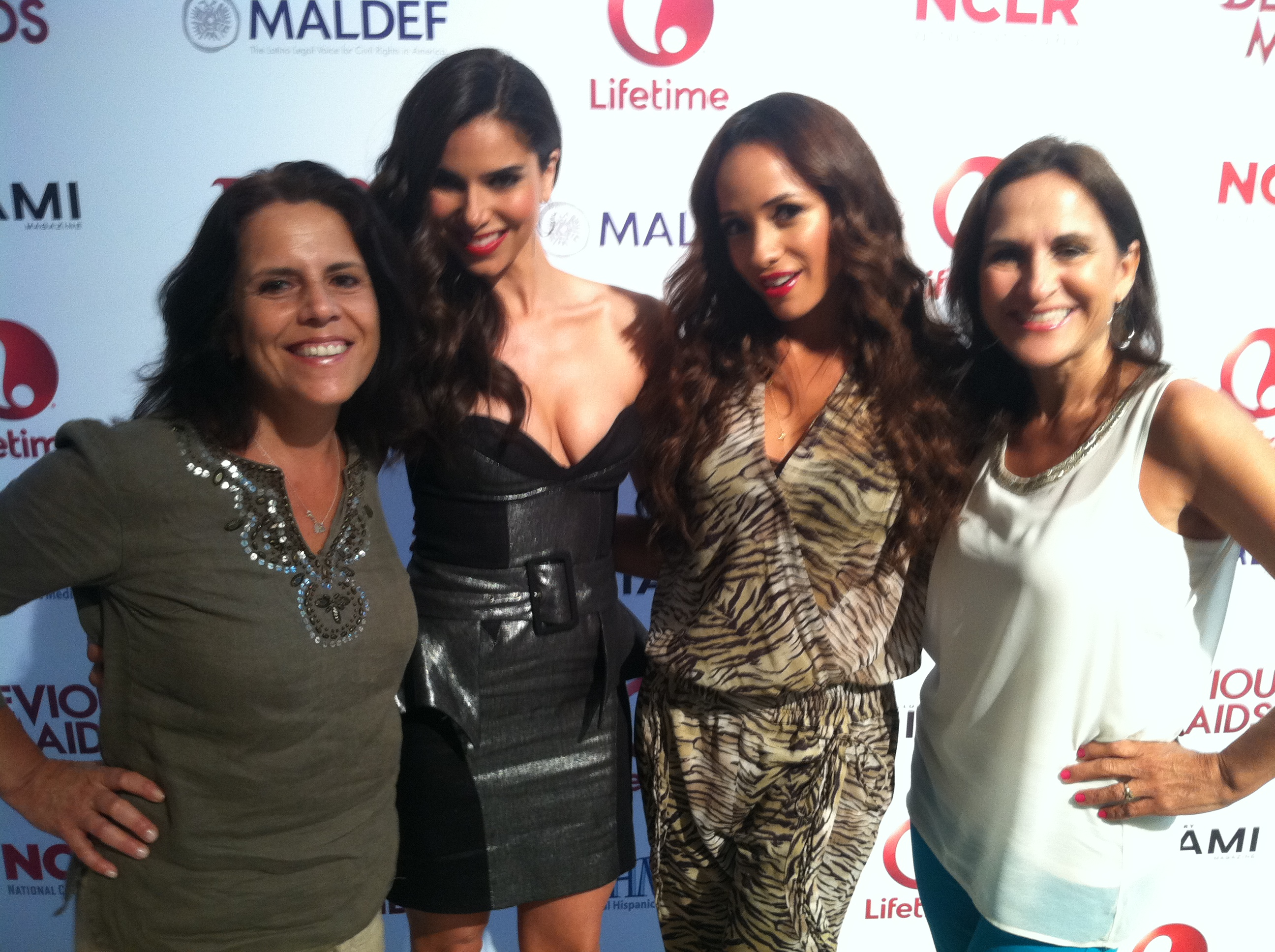 Devious Maids Screening Miami